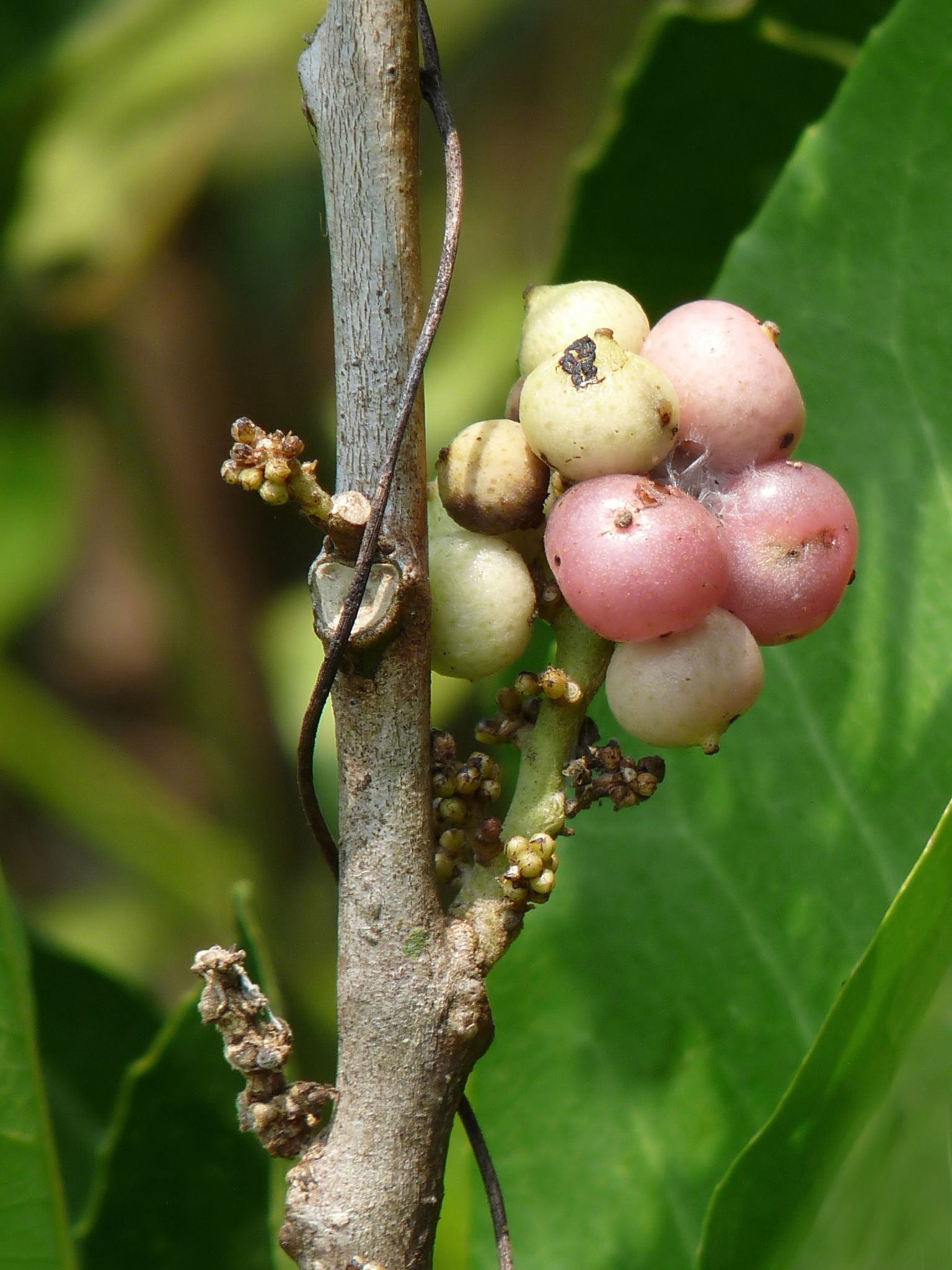 Glycosmis pentaphylla is a species of flowering plant in the citrus family, Rutaceae, known commonly as Orangeberry and Gin berry. It occurs in Southeast Asia and Northern Australia. It is cultivated for its edible pink fruits. In temperate zones, it can be cultivated indoors as a houseplant. It is a moderate sized shrub that grows up to 1 meter in height. Leaves are imparipinnately compound, alternate, gland dotted and entire. Flowers are small, white, occuring in panicles in leaf axils. Fruits are pulpy, round, rose-colored berries containing round seeds.